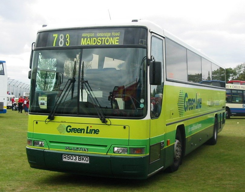 Arriva Southern Counties 2903 (R903 BKO), a Green Line coach at Showbus 2004.